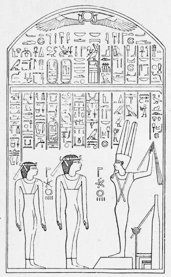 Drawing of an ancient Egyptian stela of the princesses Iuhetibu (or Yauheyebu) and Dedetanuq (or Didianuket), both daughters of pharaoh Sekhemre-Sewaditawy Sobekhotep (III) and his queen Nenni. Reign of Sobekhotep III, 13th Dynasty, Middle Kingdom. Louvre C8.